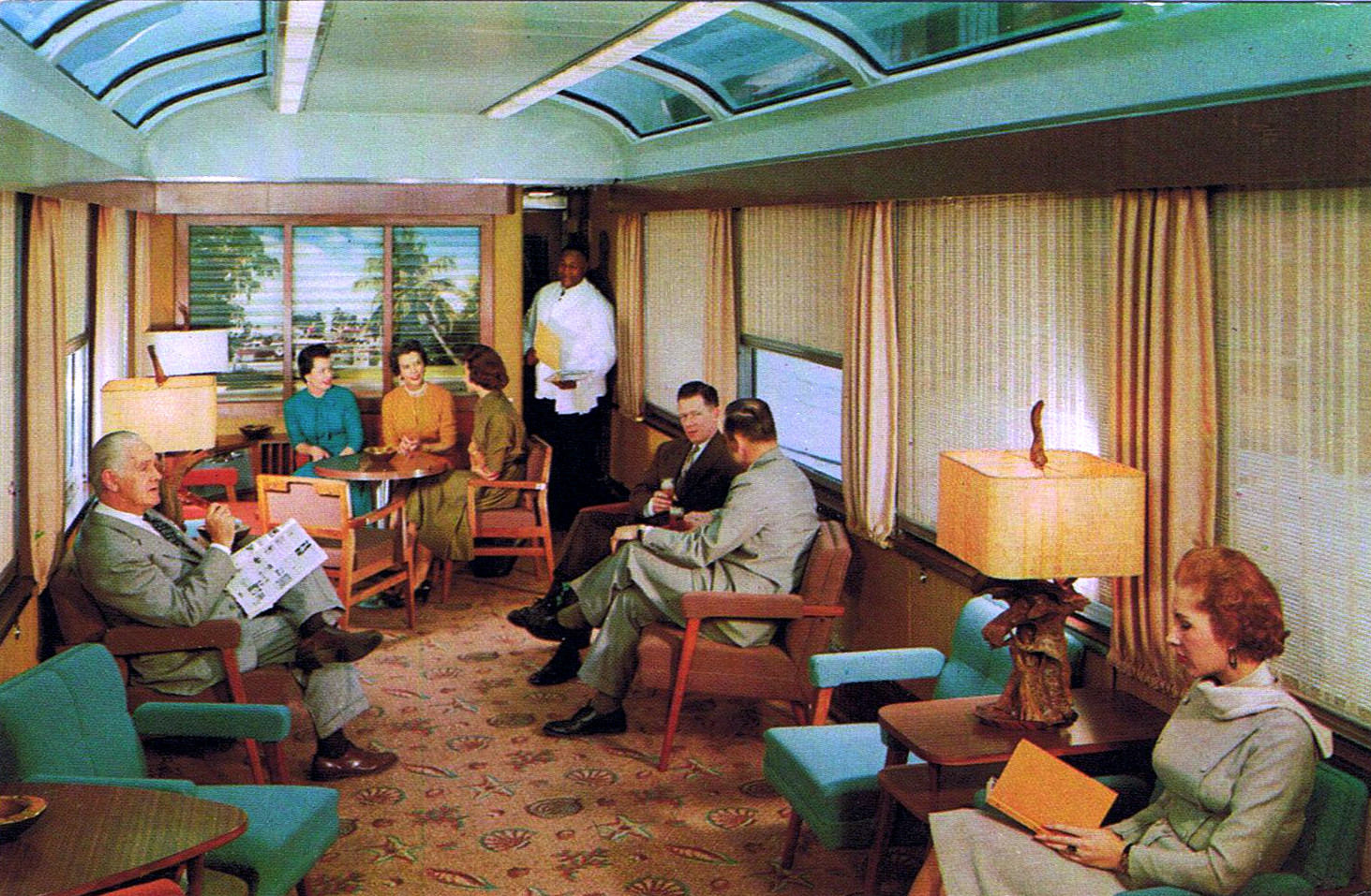 Postcard showing the interior of one of the Sun Lounge low-dome cars on the Seaboard Air Line Railroad.